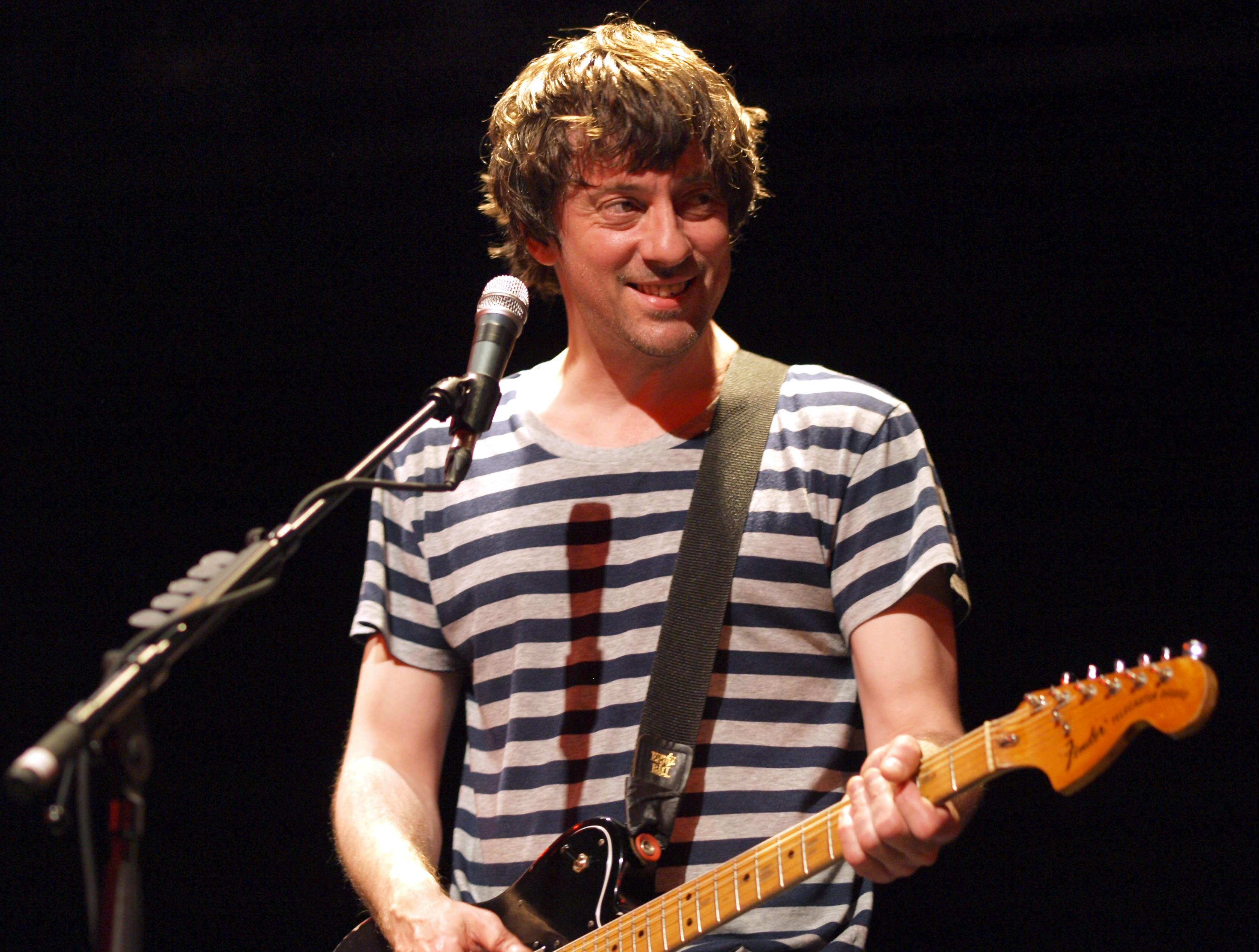 Graham Coxon @ Falmouth